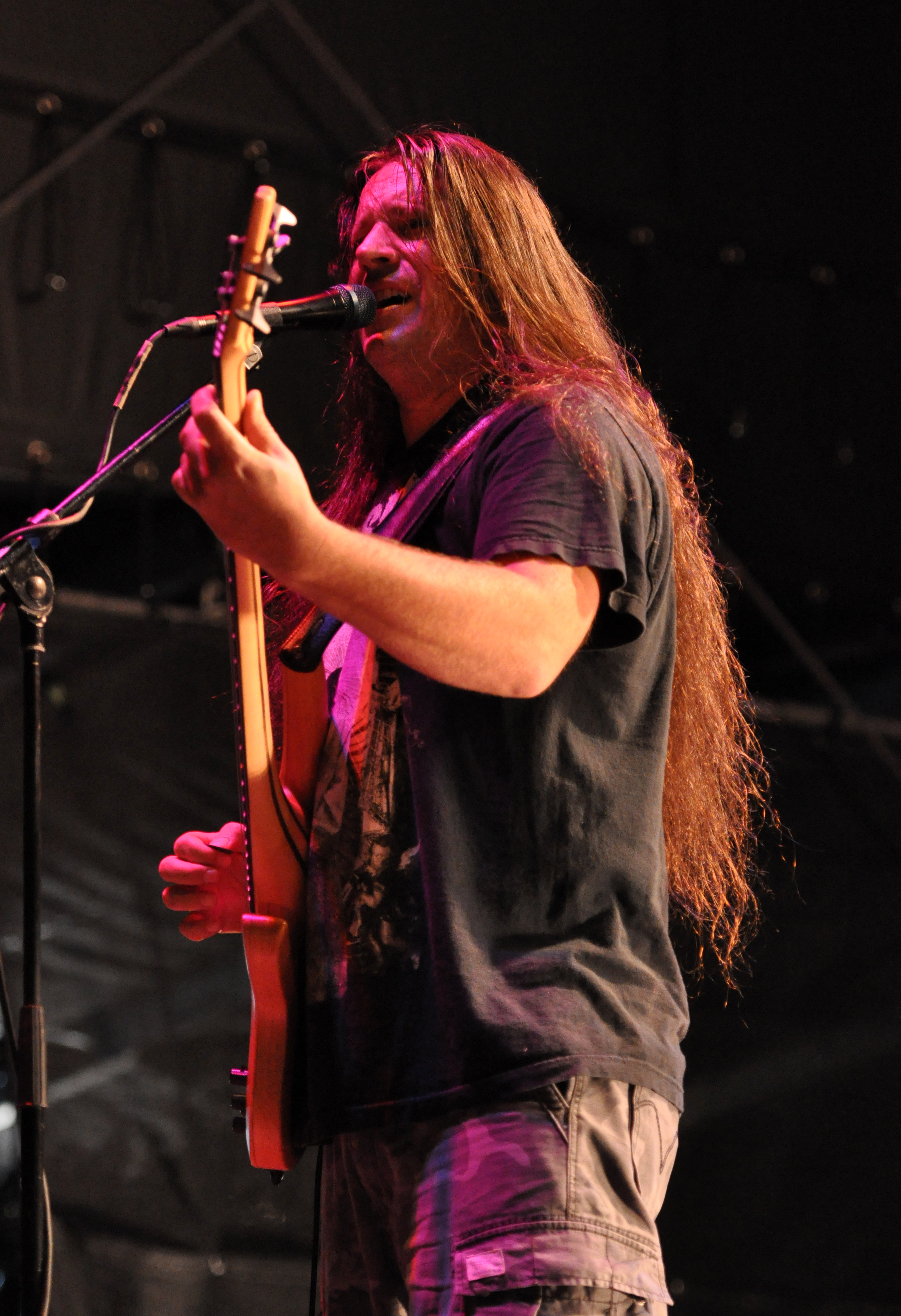 Dying Fetus at Party.San Open Air 2013